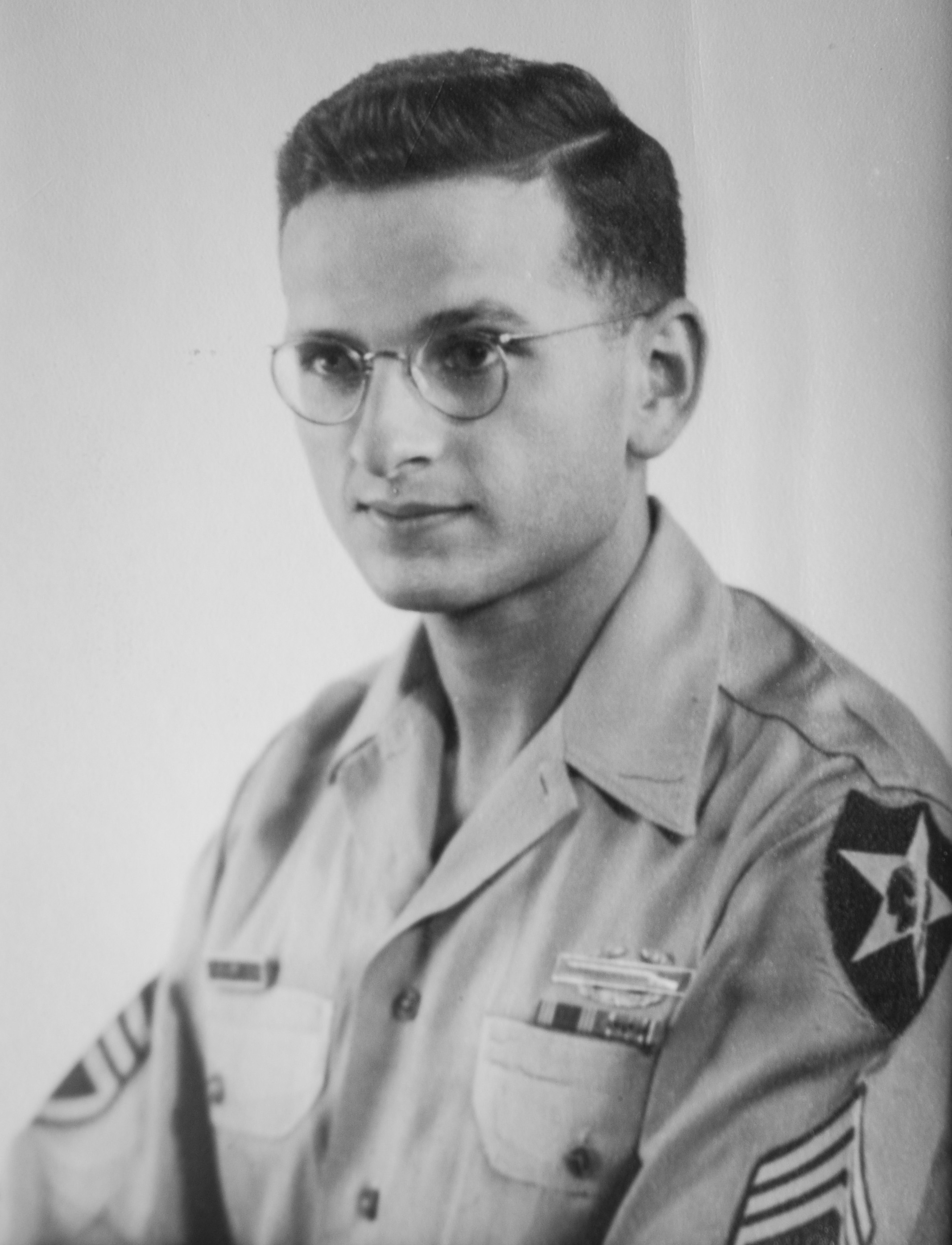 Abraham is WW2 uniform.